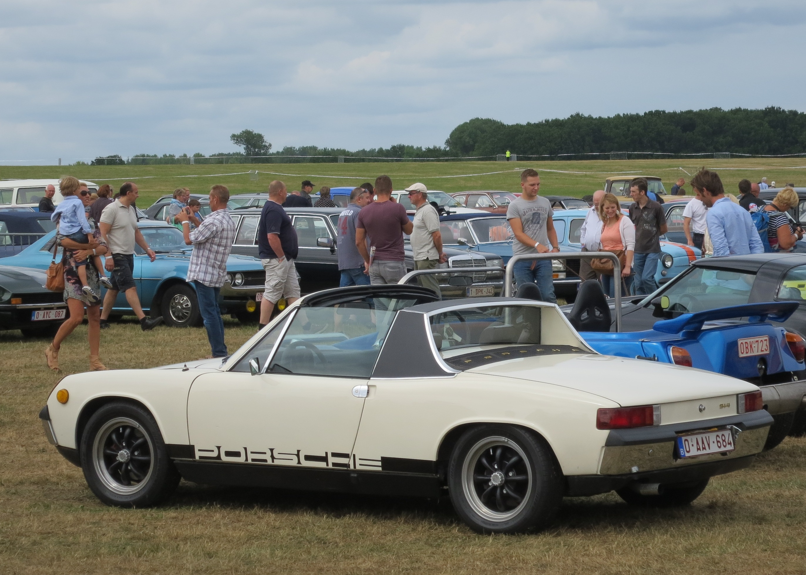 Porsche 914 in Belgium